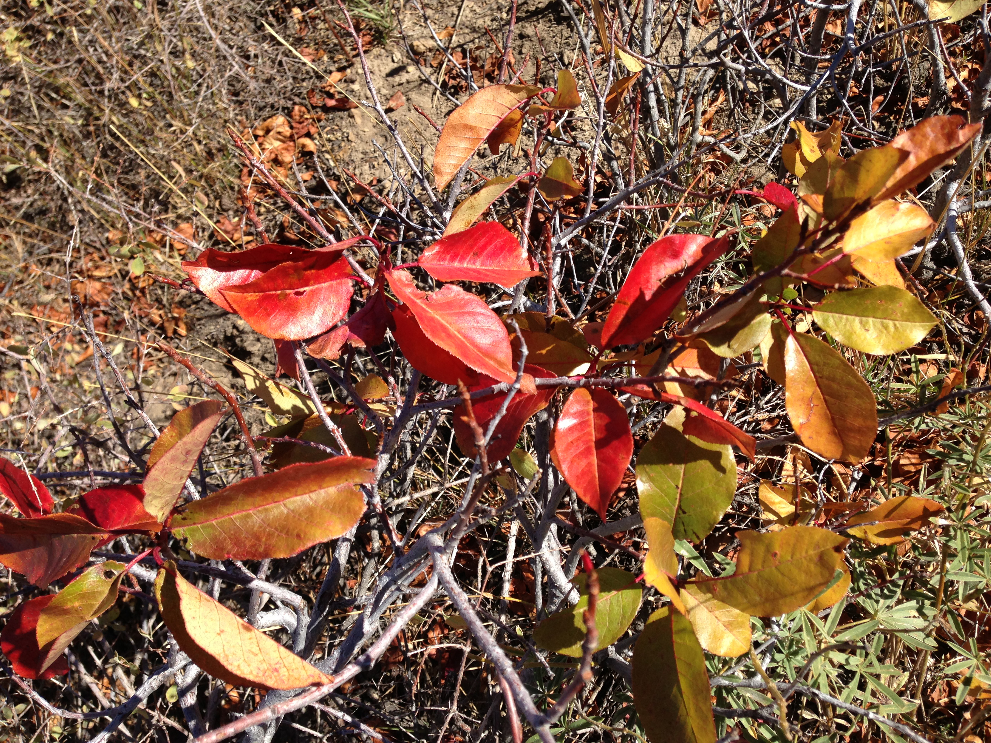 Chokecherry showing autumn foliage coloration along the main ridge of the Diamond Mountains south of Diamond Peak, Nevada